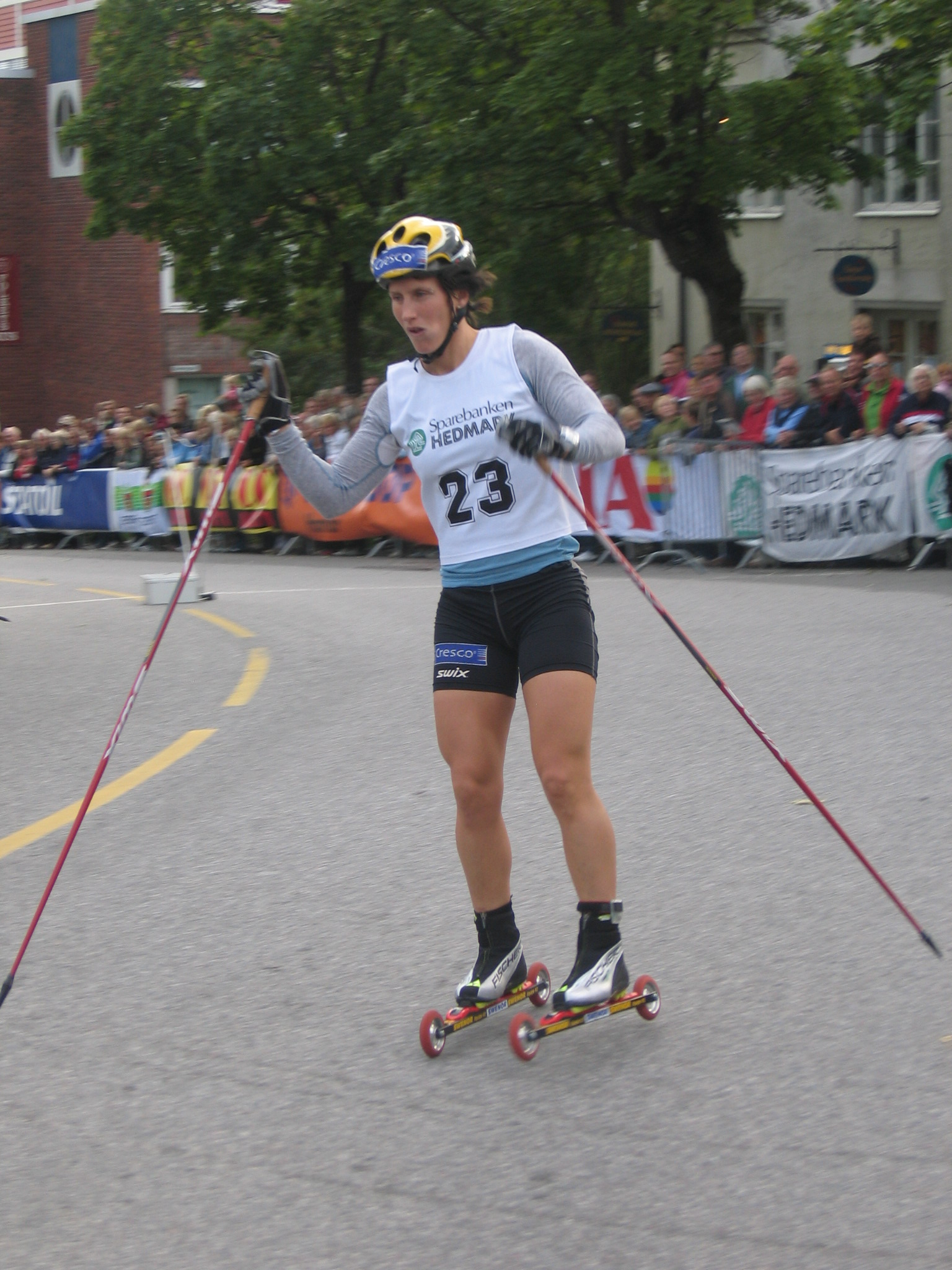 The Norwegian cross-country skier Marit Bjørgen at the Kirkebakken Grand Prix 2007 in Hamar, Norway.